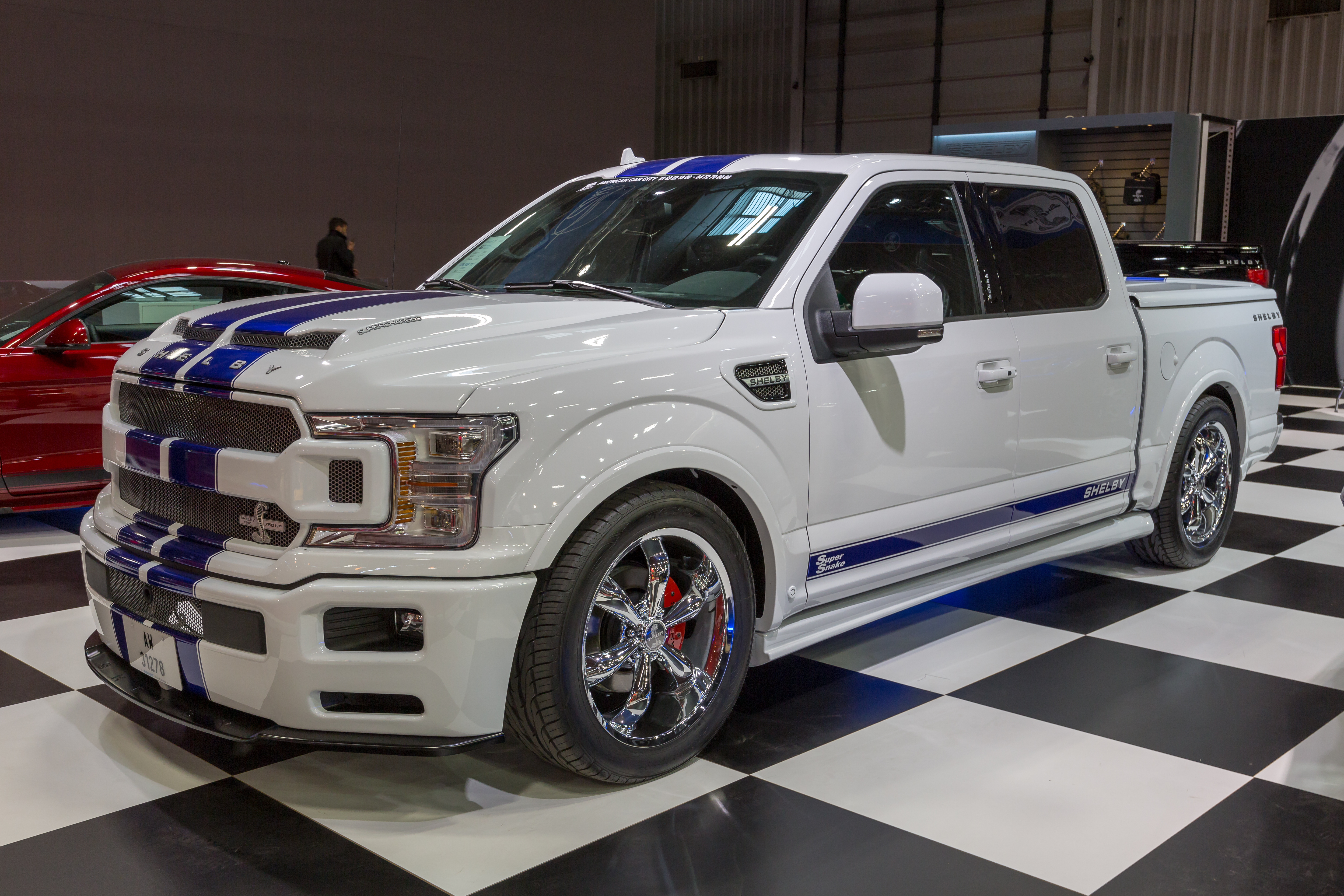 Shelby Ford F-150 Super Snake, Mondial Paris Motor Show 2018